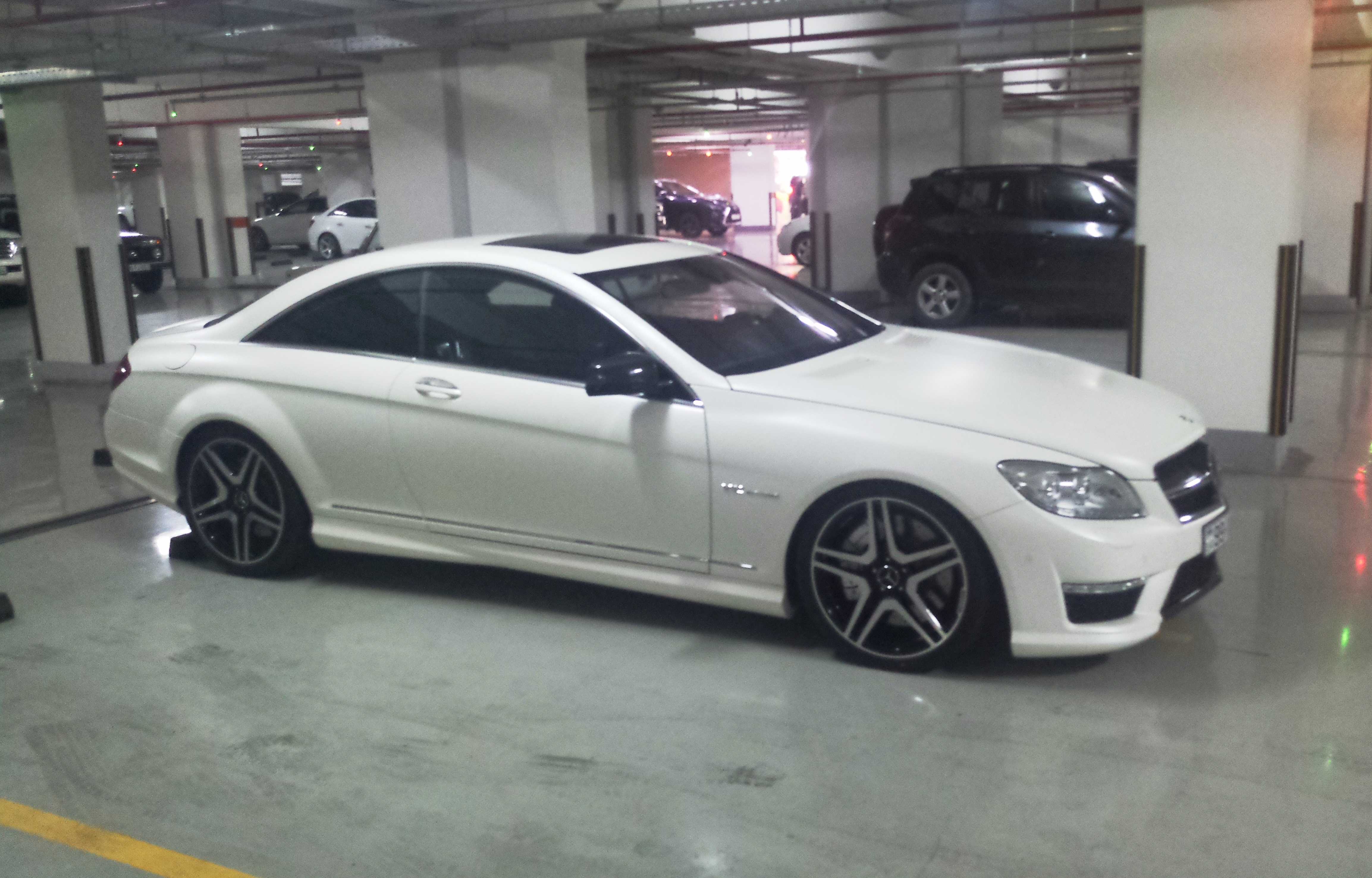 Mercedes Benz CL65 AMG C216 restyling model